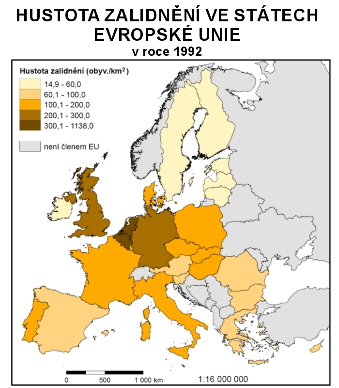 A choropleth map of population density in the European Union.